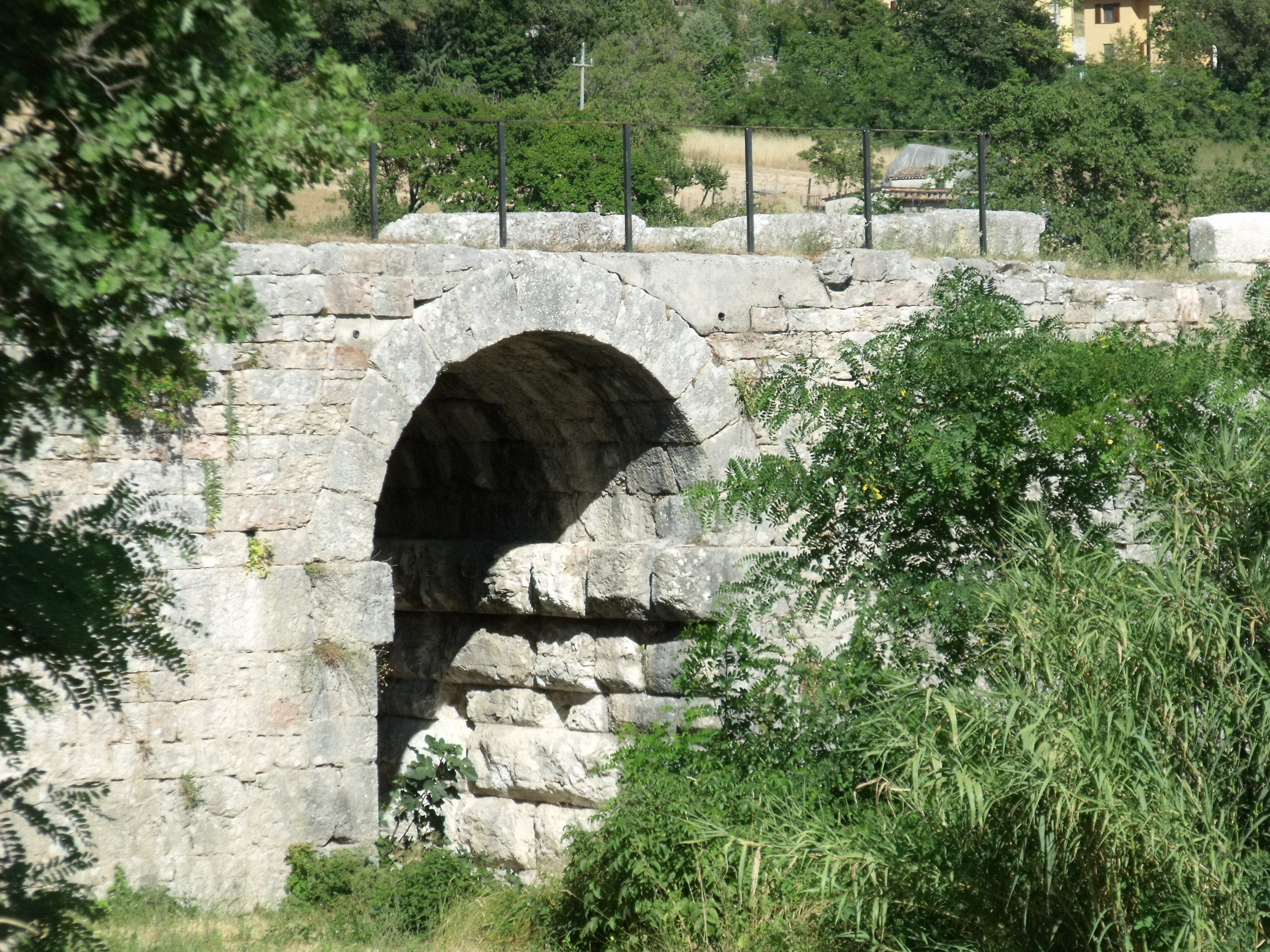 Roman Bridge Ponte Romana (Ponte Spiano) on the Via Flaminia, Sigillo, Province of Perugia, Umbria, Italy